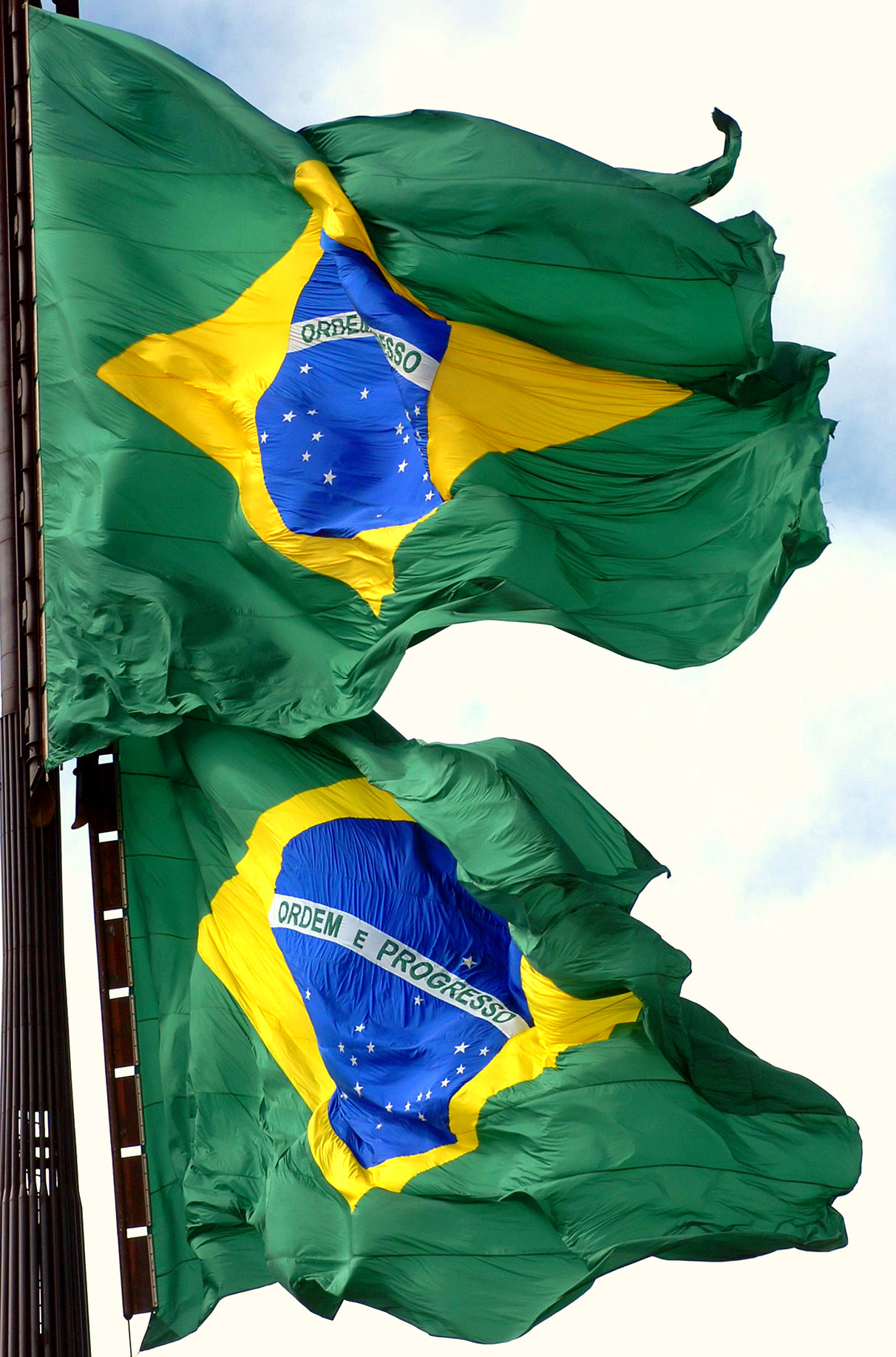 Brasília - Ceremony of national flag handover at the Three Powers Square.